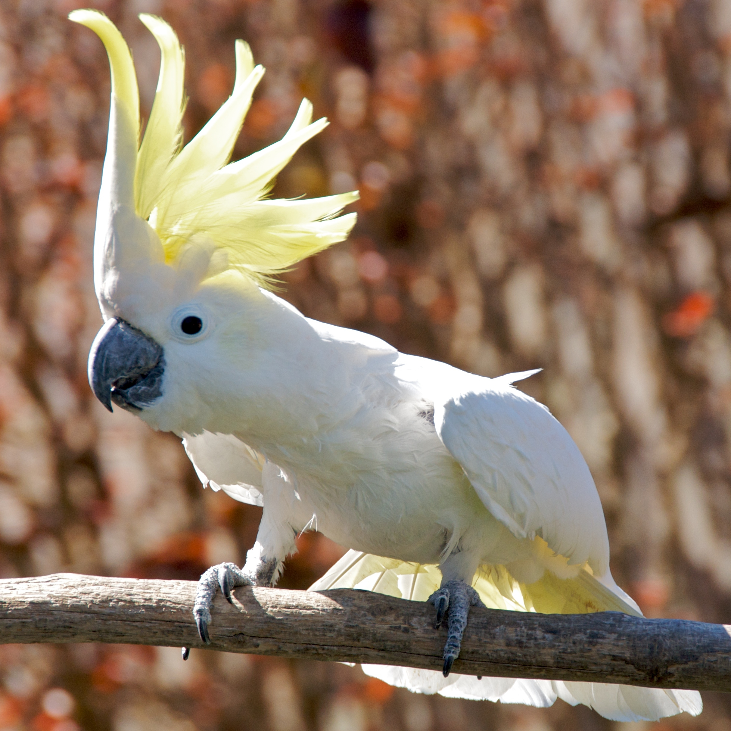 Sulphur-crested Cockatoo in captivity perching on a branch in Florida, USA.